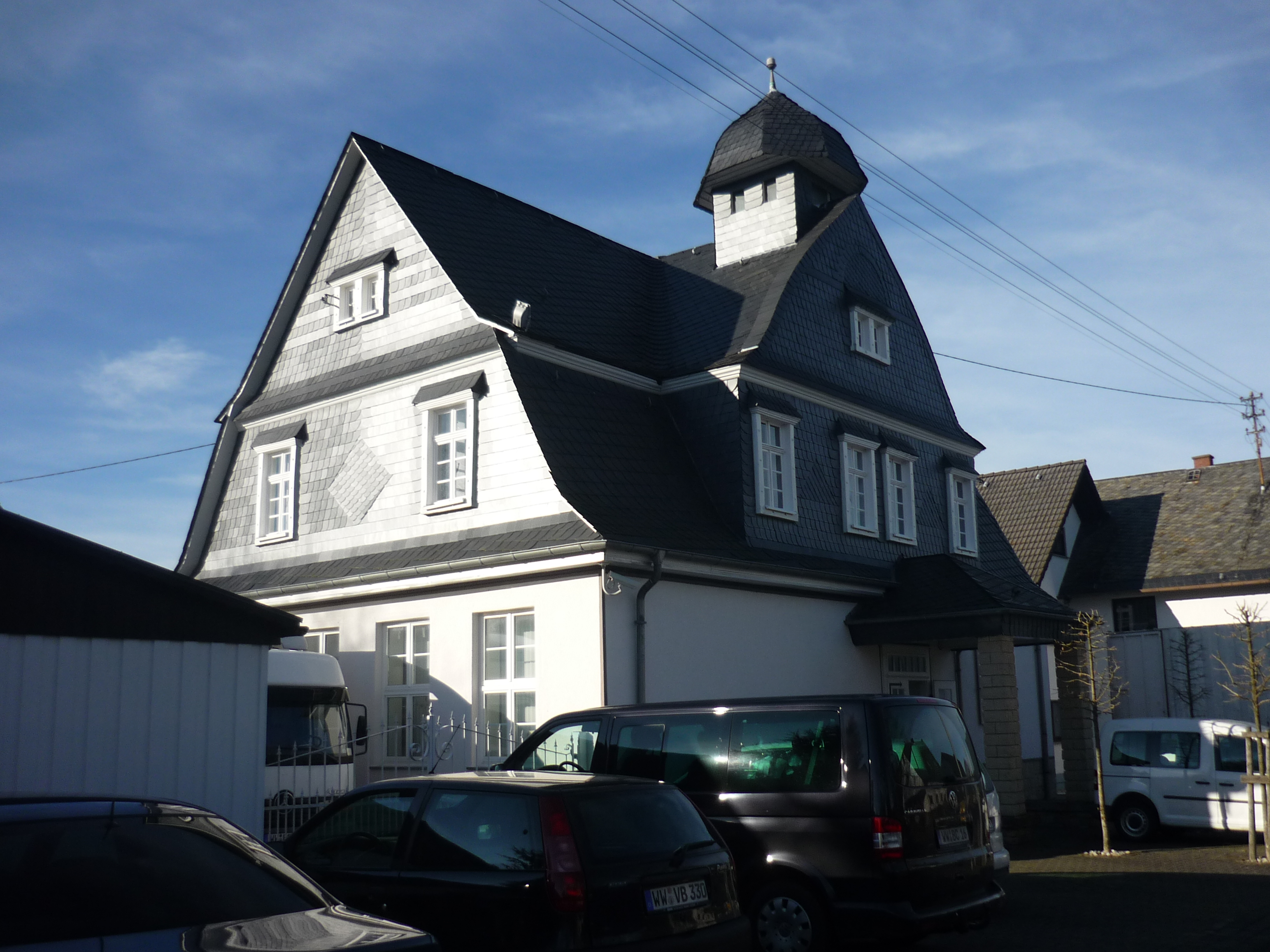 Old School Hütte Hattert near Hachenburg Westerwald